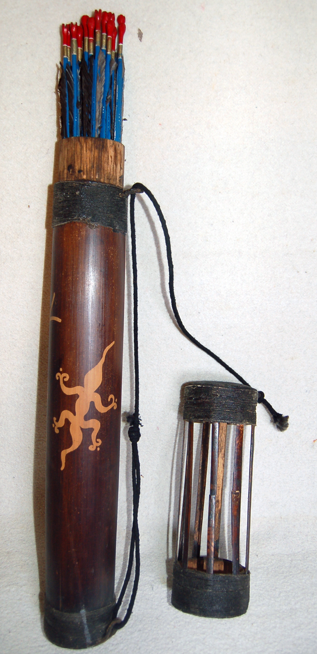 Quiver